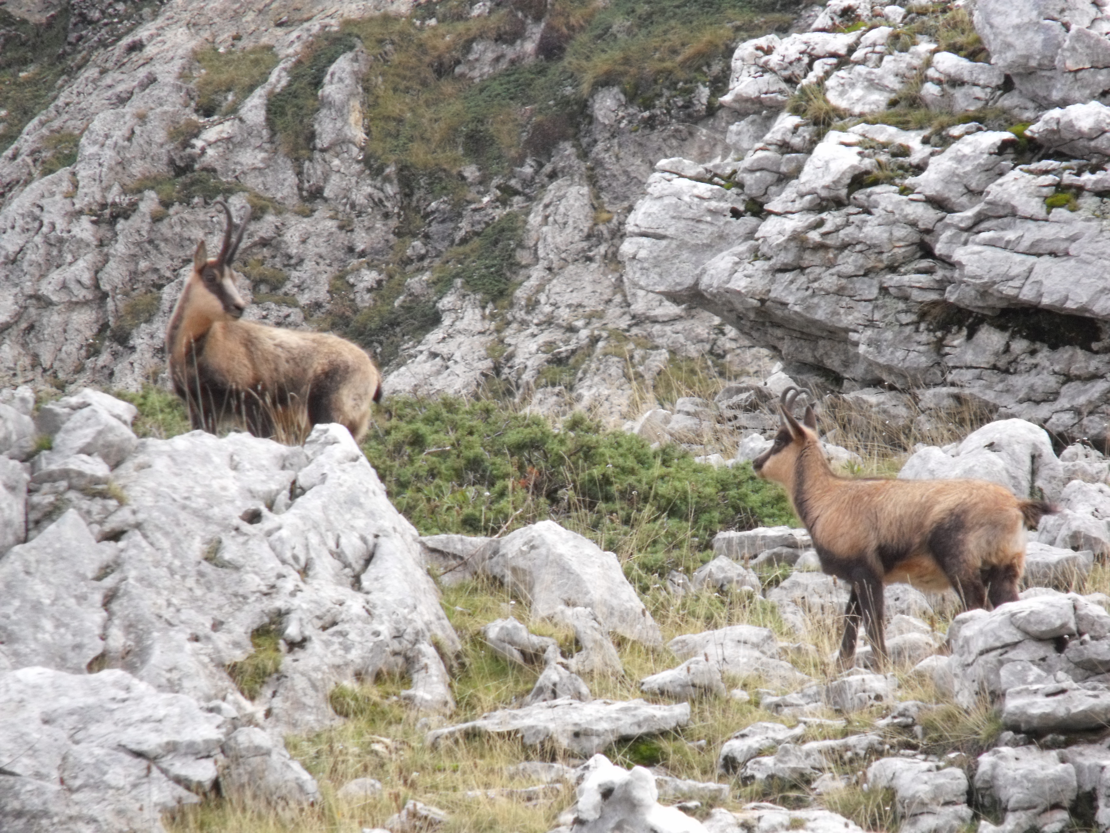 Rupicapra pyrenaica ornata photographed on Camosciara massif (National park of Abruzzo, Lazio and Molise, central Italy). About 1700 m above sea level. Photo by Massimiliano Marcelli.